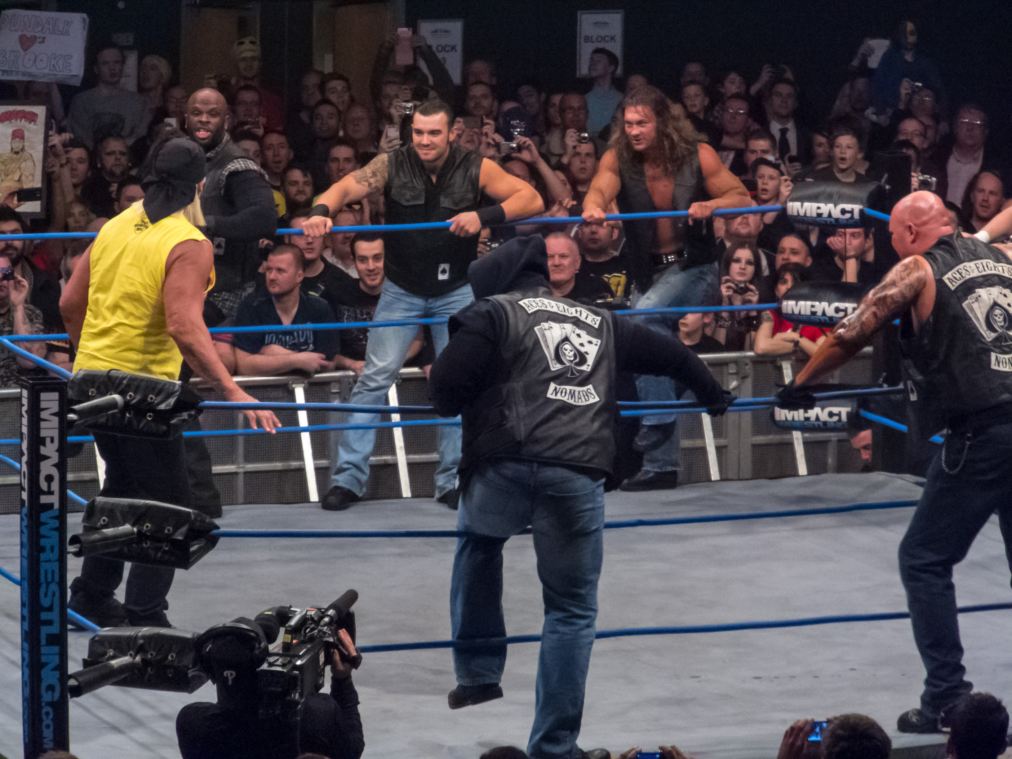 Aces & Eights prepare to attack Hulk Hogan at the Impact! TV Tapings in Wembley, England on January 26, 2013.